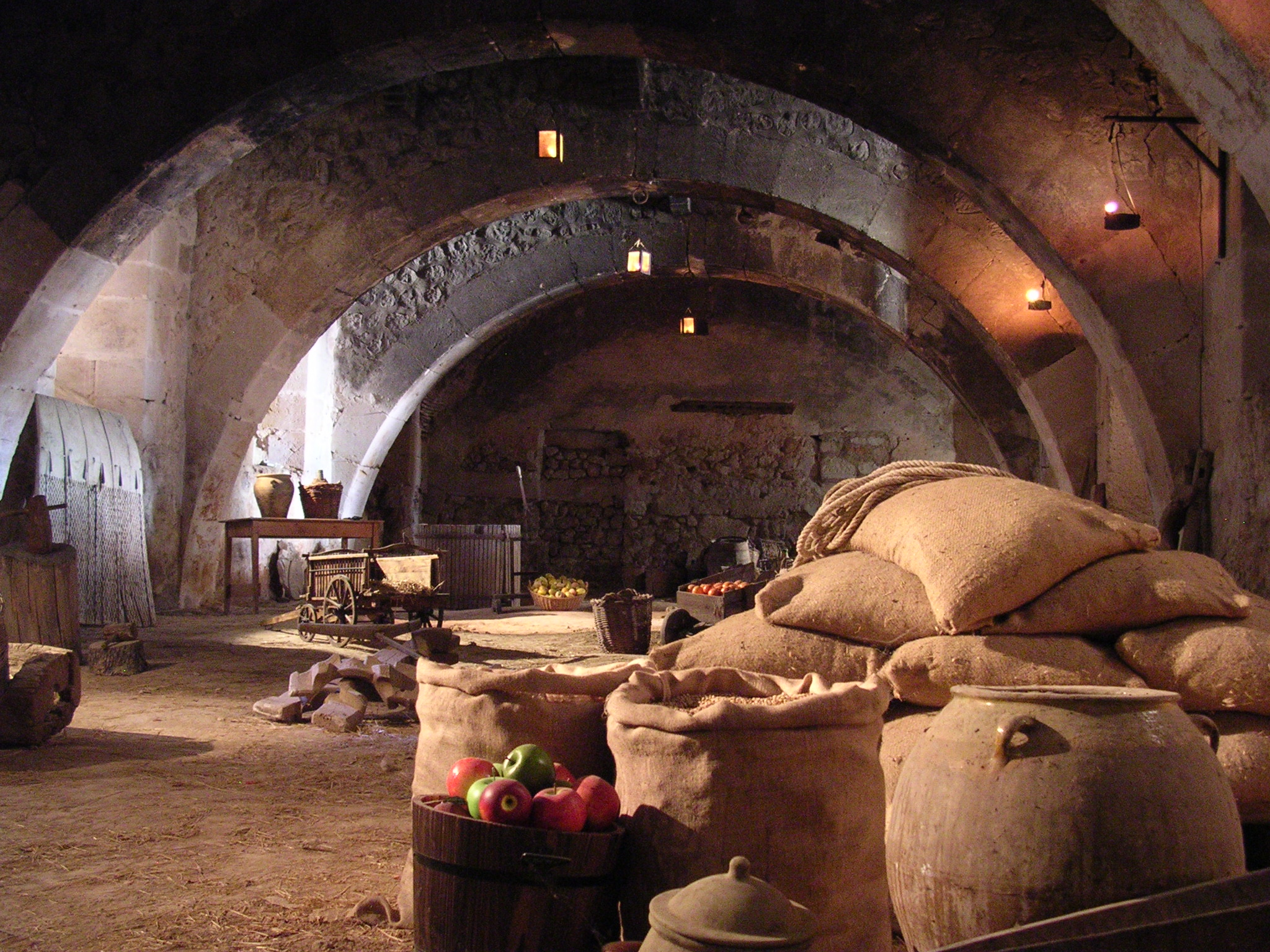 Old Warehouse of the Cistercian Monastery of "Santa María de Huerta" in the province of Soria (Castile-Leon), Spain.